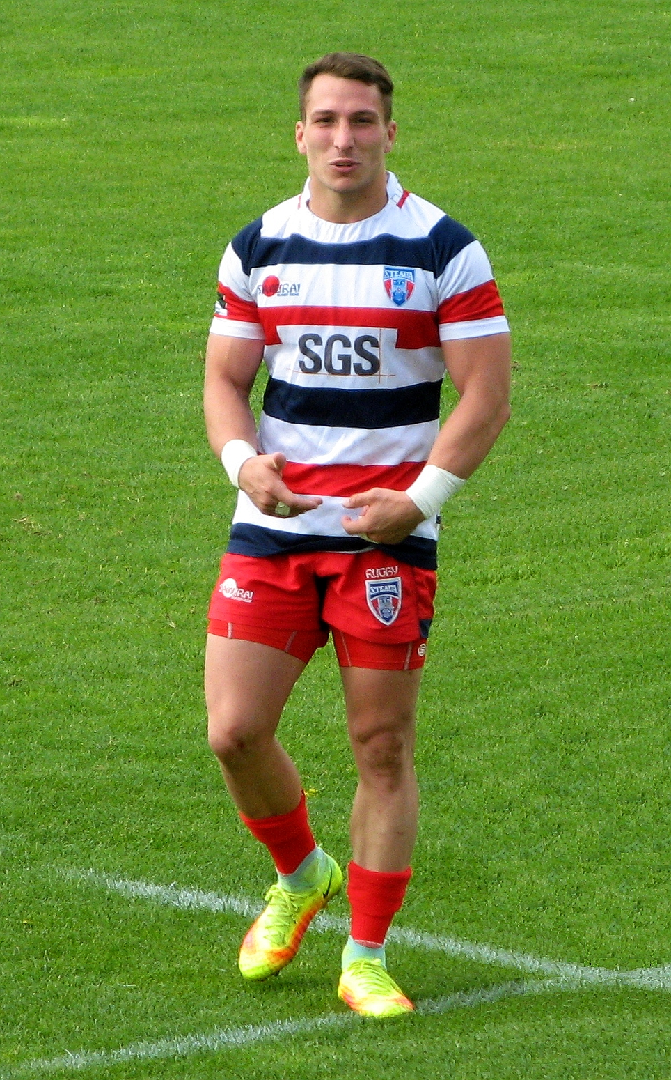 Ionuț Dumitru, from CSA Steaua București rugby club seen in a match against Timișoara Saracens in Romanian Rugby SuperLiga in April 2017